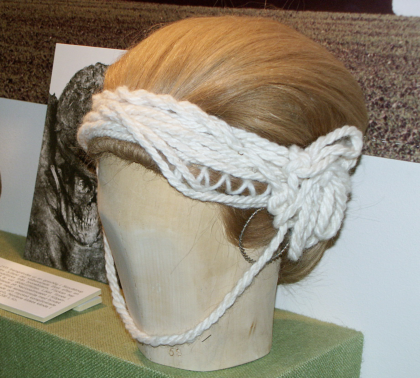 Rekonstruction of Skrystrup Womans hairstyle of early Nordic Bronce Age around 1300 BCE from Skrydstrup, Haderlev Kommune, Denmark. The reconstruction can be found at Malmö Museum, Sweden.